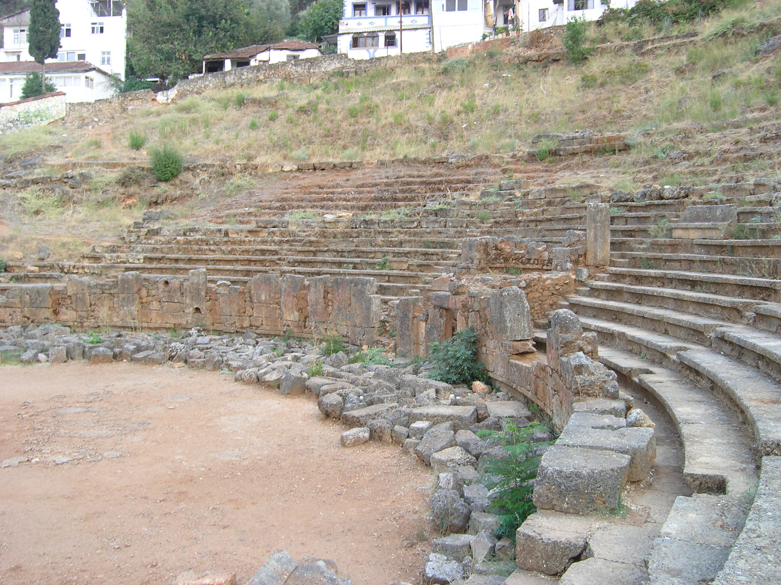 Theatre of ancient Telmessos, Fethiye, Turkey